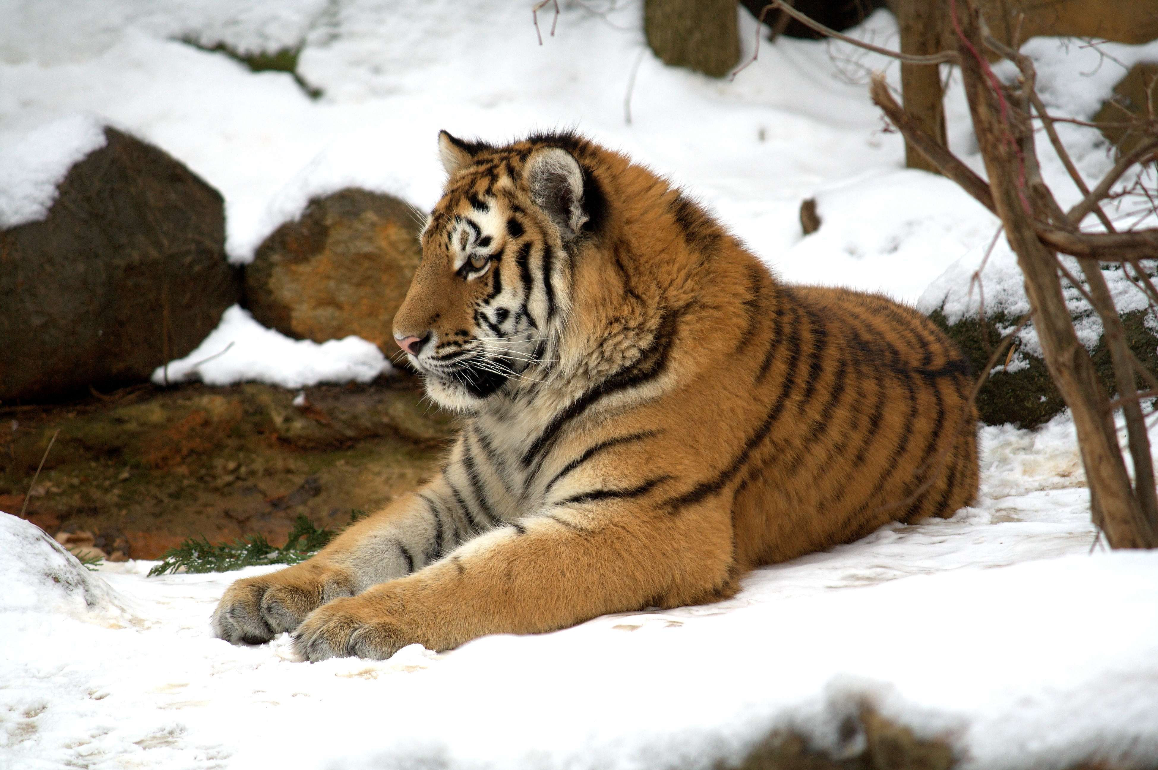 Panthera tigris altaica cup, Leipzig Zoo